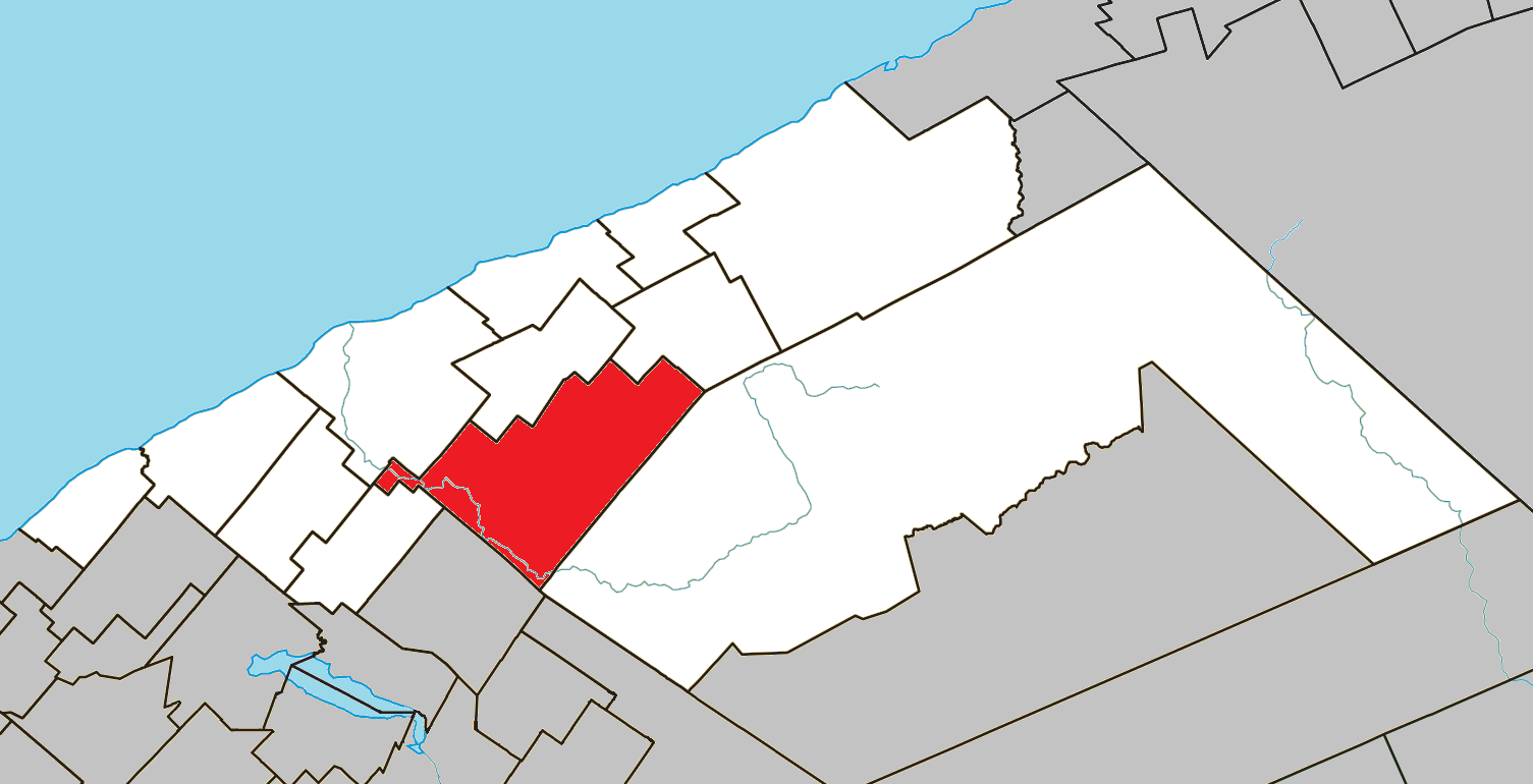 Location of Saint-René-de-Matane, Quebec within Matane Regional County Municipality.